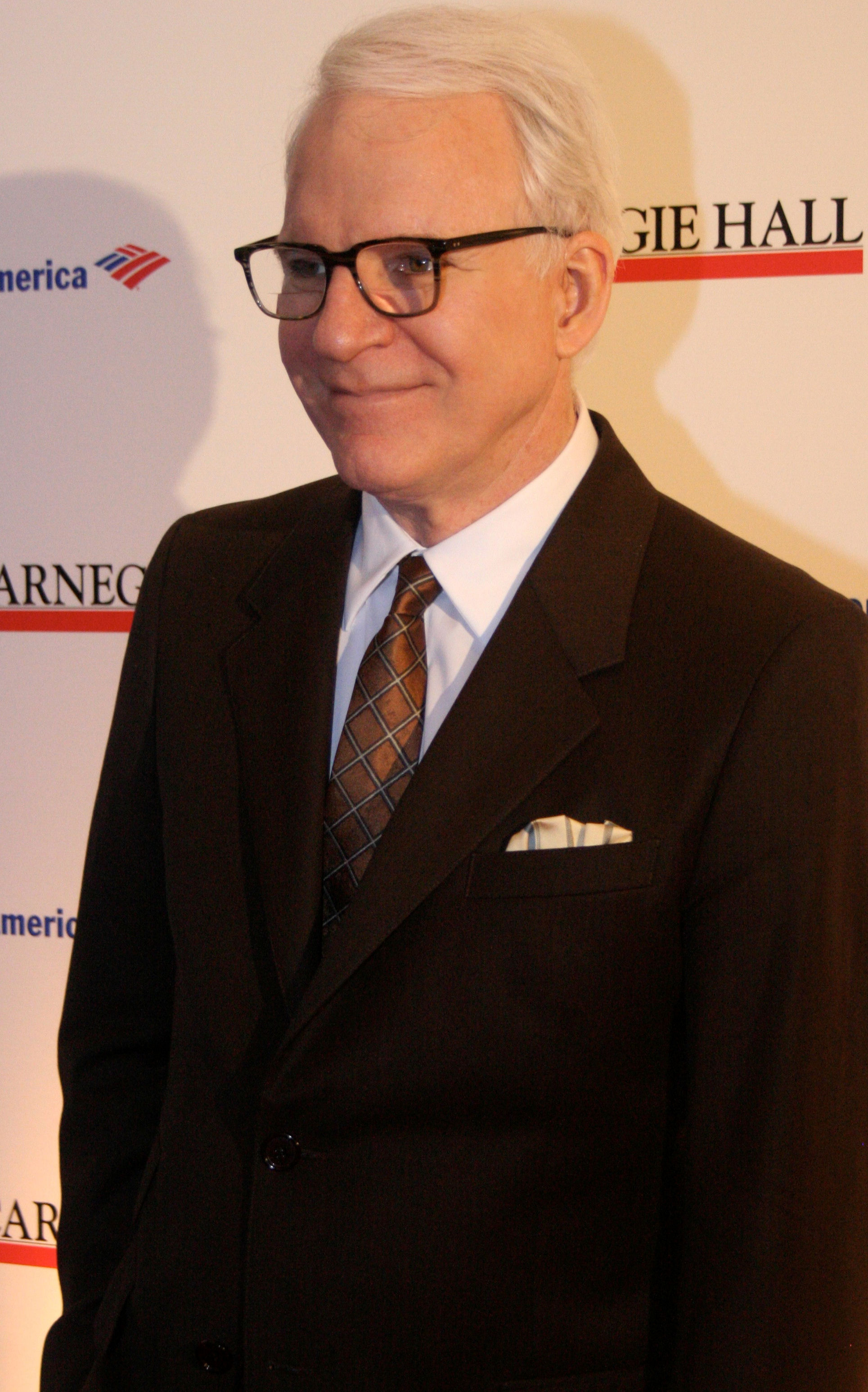 Steve Martin at the 120th Anniversary of Carnegie Hall in MOMA, New York City in April 2011.